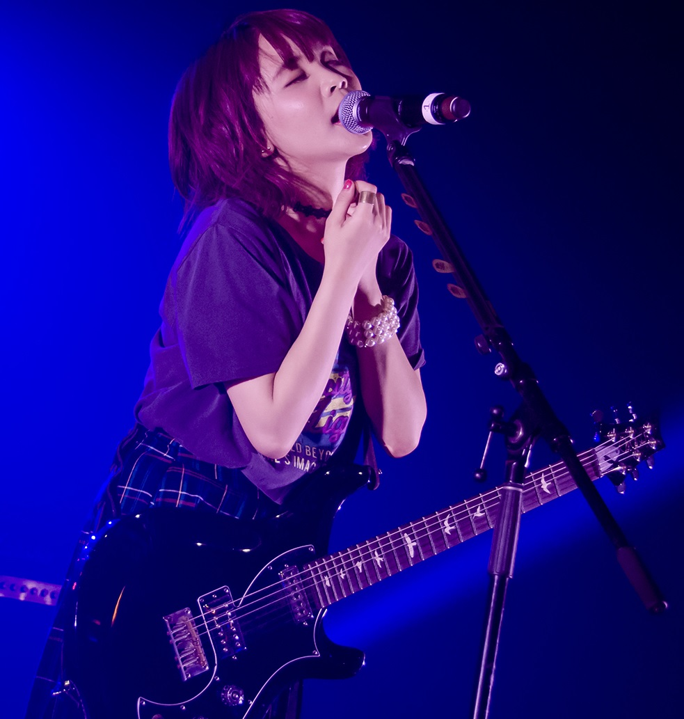 Shiena Nishizawa performing at Otakuthon 2018